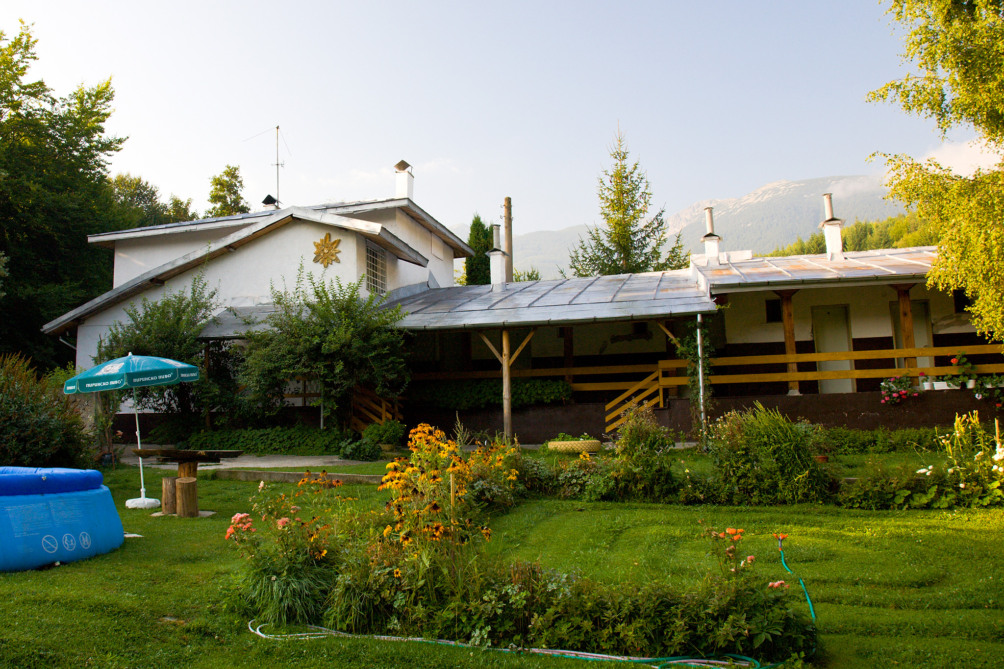 The Predel refuge in Northern Pirin mountain, Bulgaria